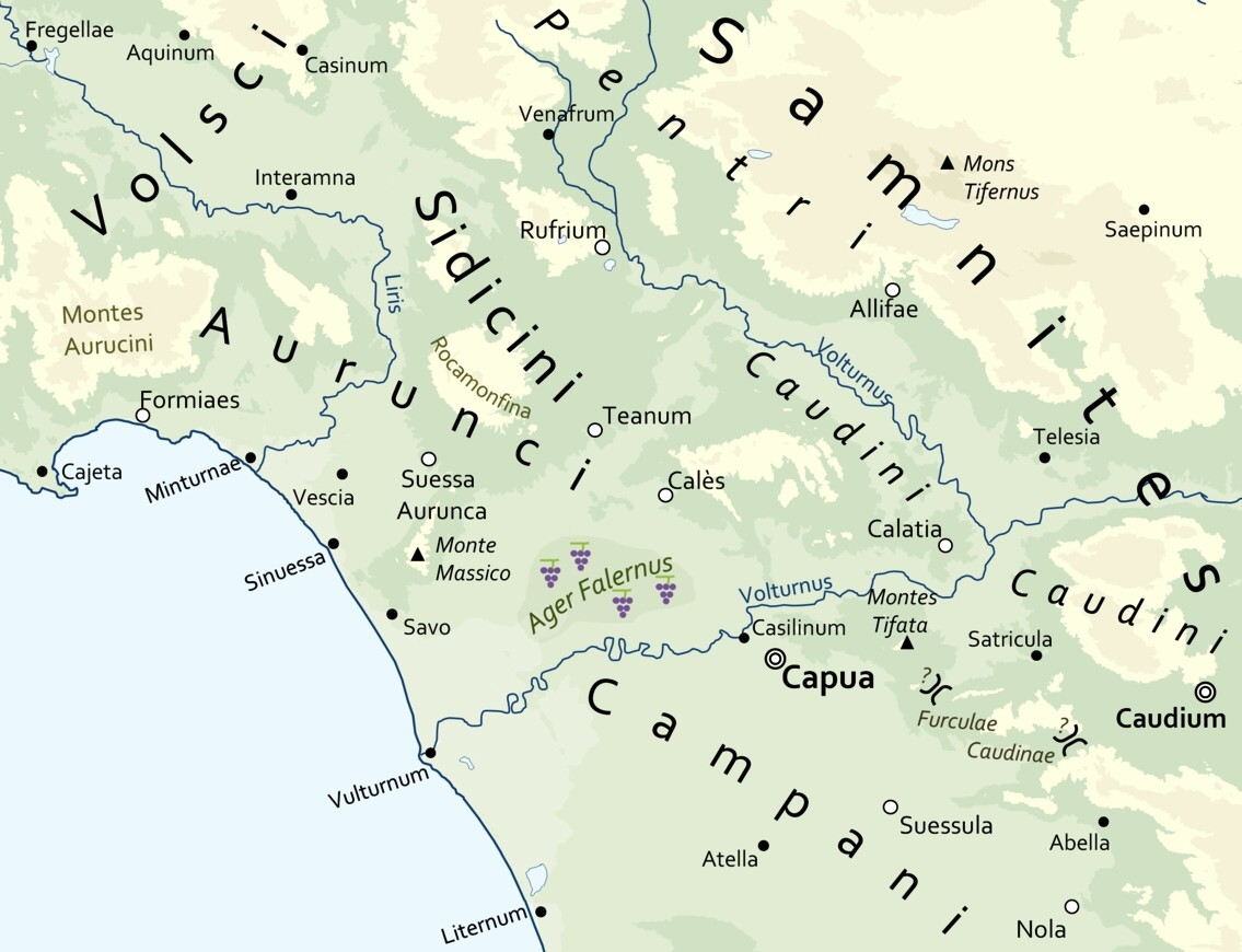 Settlements of Italic tribes.